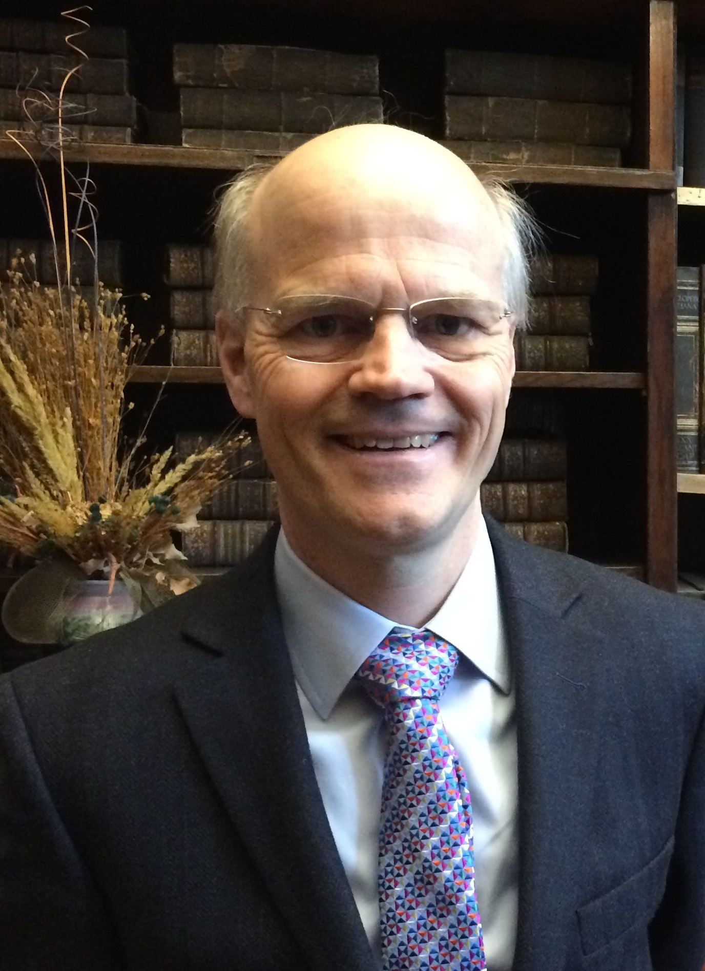 Dr. Enno Aufderheide, Secretary General of the Alexander von Humboldt Foundation, during his visit in Sofia, Bulgaria for the Humboldt Kolleg "Humboldtians and Scientific Progress in the Central and Eastern European (CEE) Countries", November 16–18, 2017, Sofia, Bulgaria. Picture taken in the Library of Sofia University on November 17, 2017.